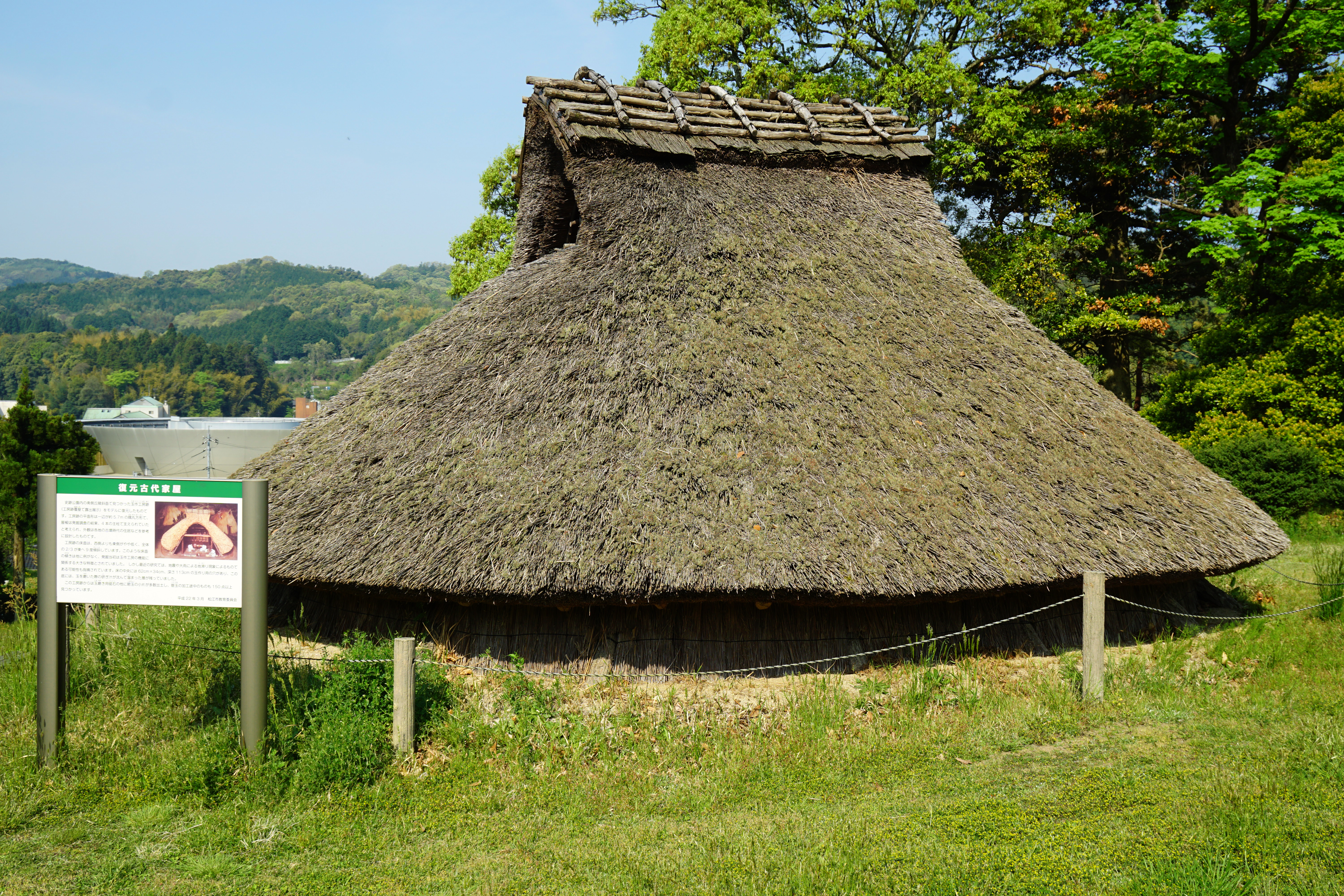 Izumo Tamatsukuri Historical Park, Matsue, Shimane prefecture, Japan.